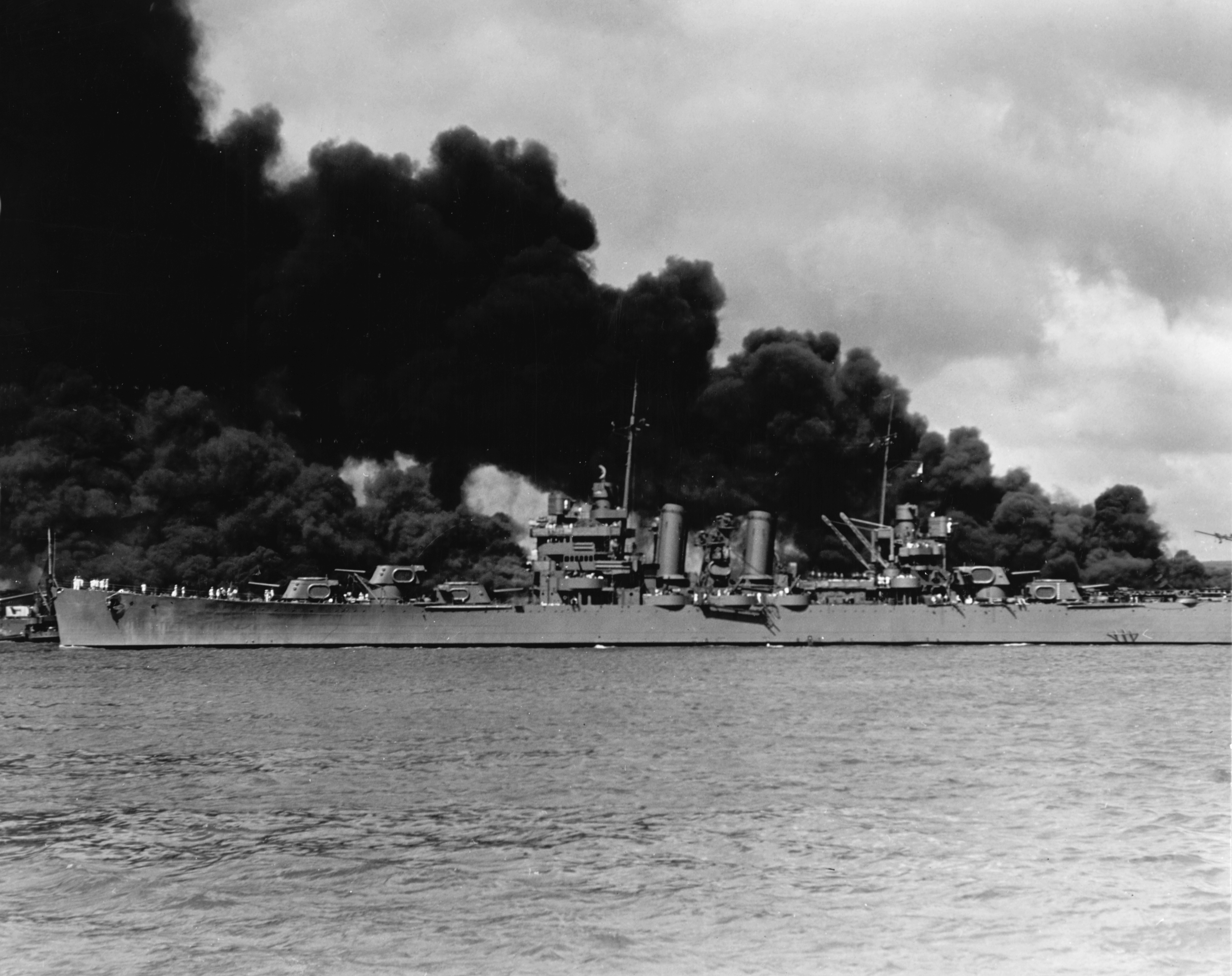 The U.S. Navy light cruiser USS Phoenix (CL-46) steams down the channel at Pearl Harbor, Hawaii, off Ford Island's Battleship Row, past the sunken and burning battleships USS West Virginia (BB-48), at left, and USS Arizona (BB-39), at right, 7 December 1941.